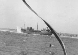 Picture taken from the USS Pivot in the Pacific Theater in 1945